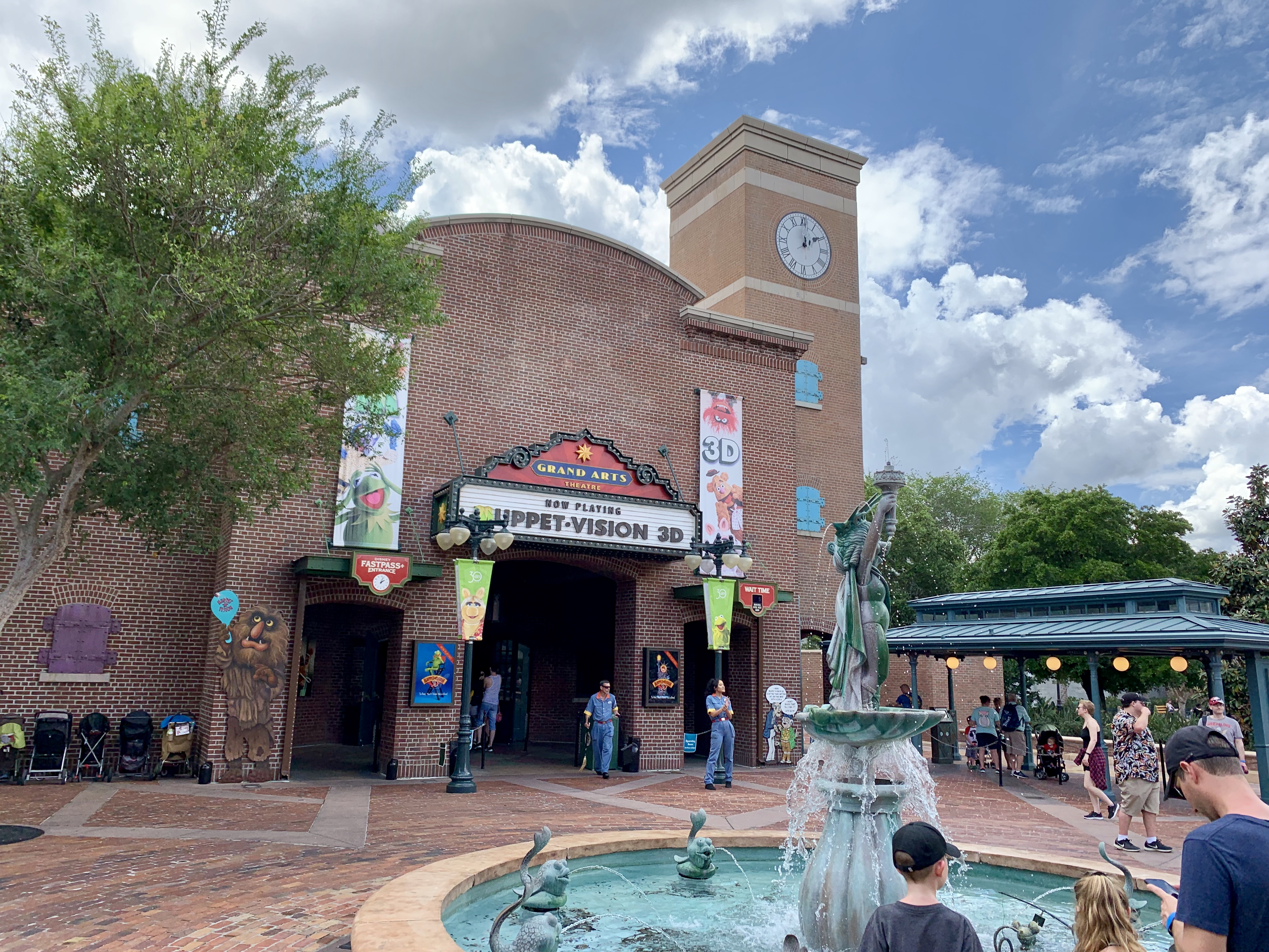 The marquee and exterior of Muppet*Vision 3D at Disney's Hollywood Studios in 2019.